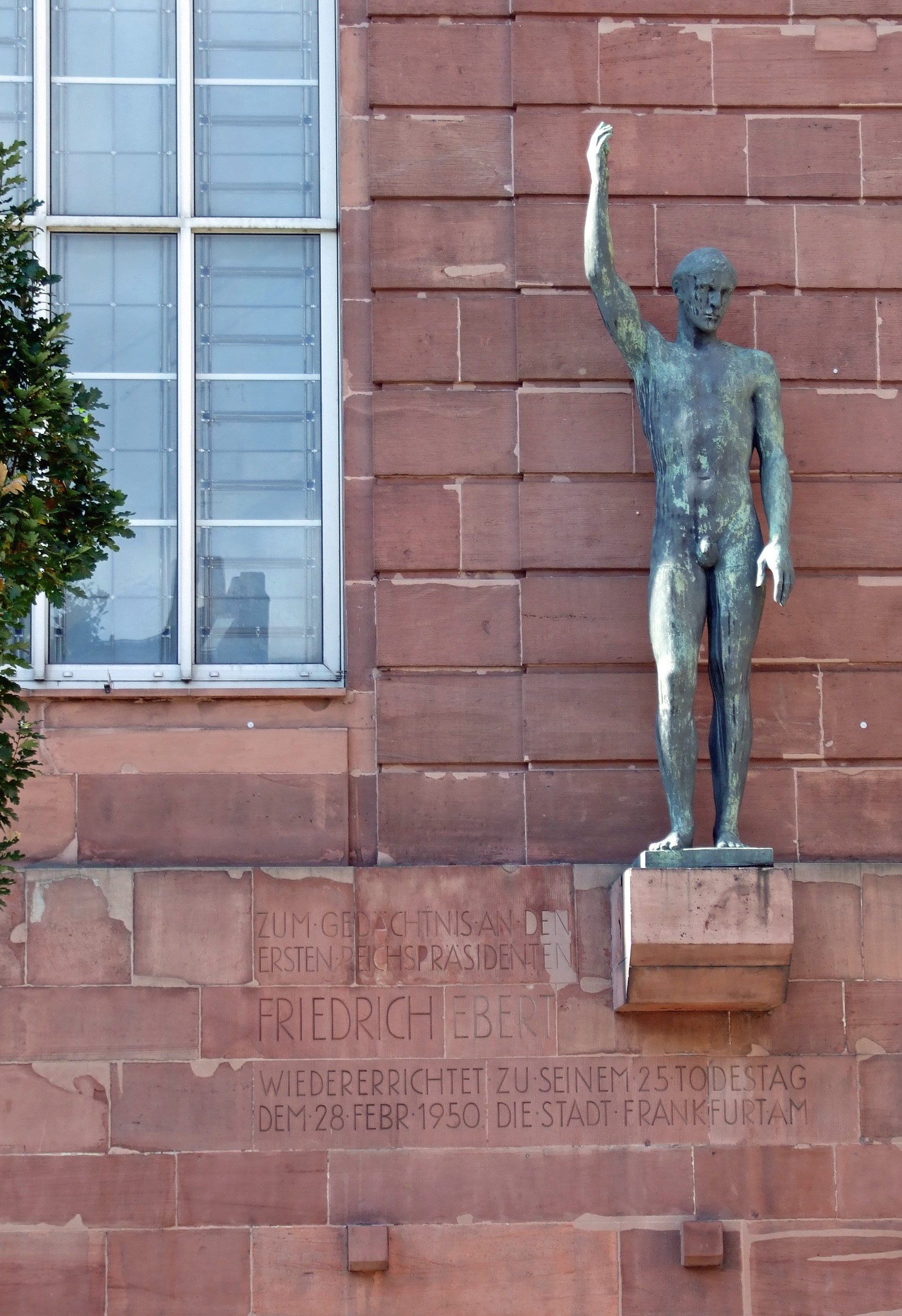 memorial (sculptor: Richard Scheibe) of Friedrich Ebert, first president of the Weimar Republic (1919-1925), outside of Paulskirche in Frankfurt am Main, Germany